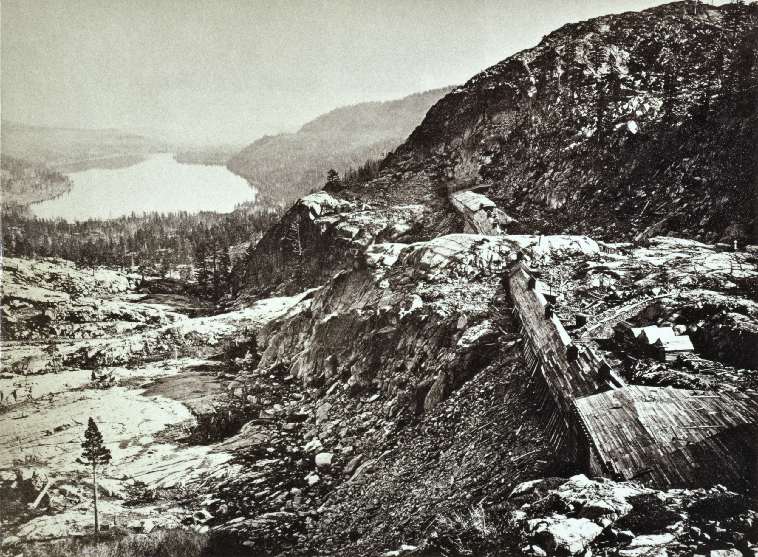 "Summit of Sierra Nevada - snow sheds in foreground, Donner Lake in the distance, Central Pacific R.R.", albumen print. This illustration was carried in: Sun pictures of Rocky Mountain scenery, with a description of the geographical and geological features, and some account of the resources of the great West; containing thirty photographic views along the line of the Pacific rail road, from Omaha to Sacramento, / F.V. Hayden. New York : Julius Bien, 1870, [plate] XXIX.[1]